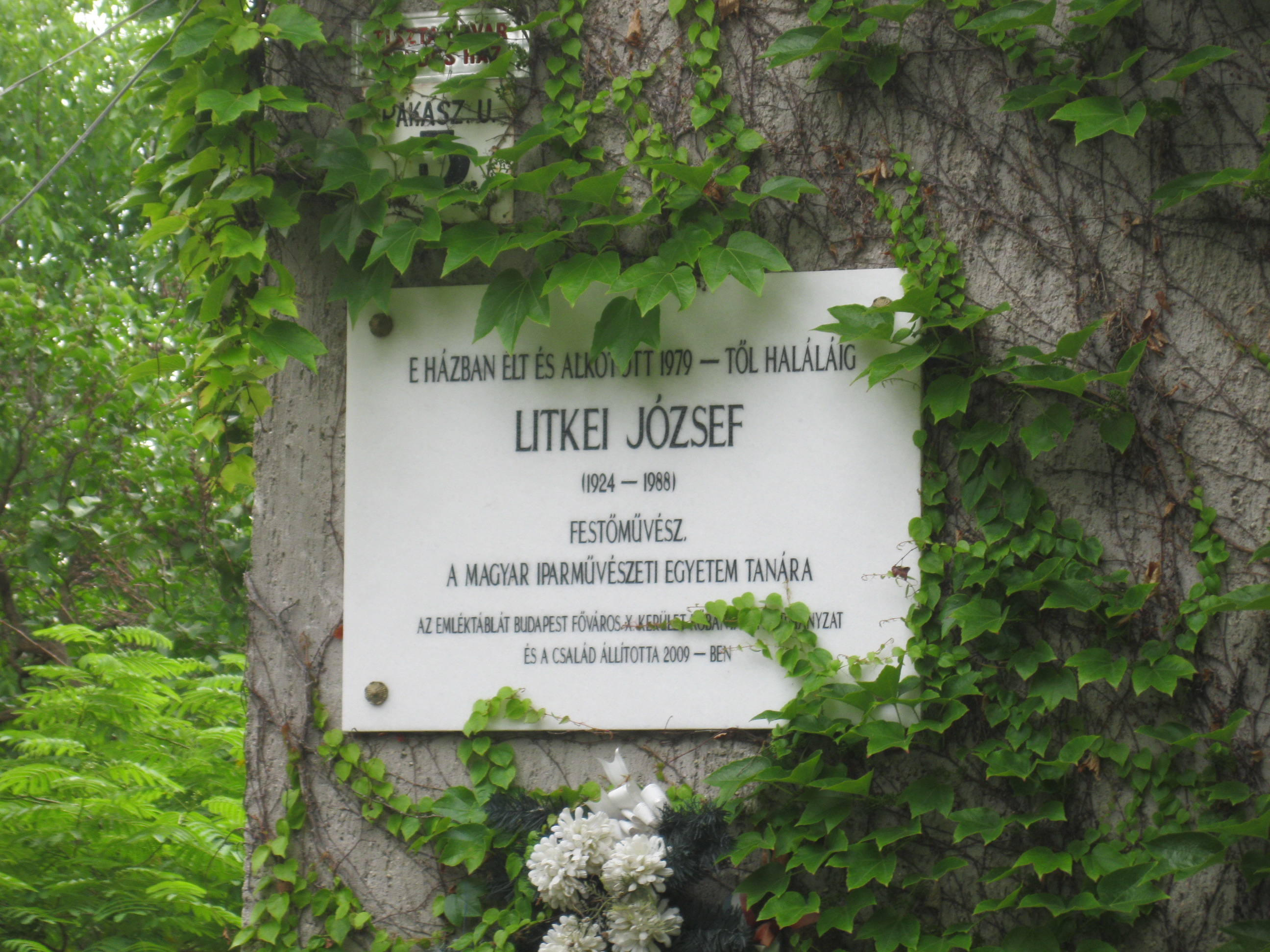 Commemorative plaque of József Litkei in Budapest District X, Rákász Street No 5